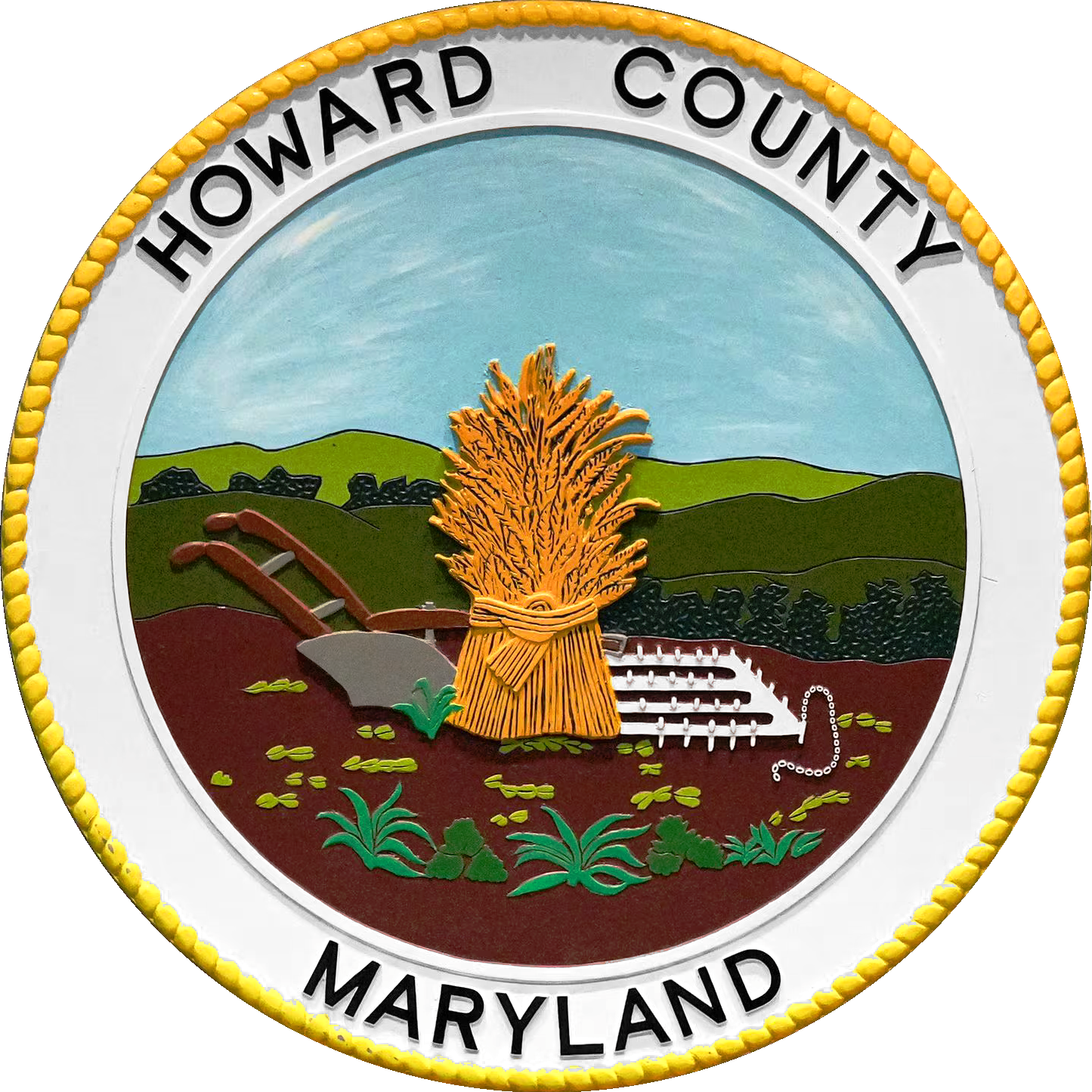 The seal of Howard County, Maryland. The Howard County Seal was designed and approved on behalf of the Howard District of Anne Arundel County in 1840, but the County was not officially established until Howard District was separated from Anne Arundel County in 1851. The seal was designed by Edward Stabler, one of the foremost seal designers of the time (He also designed seals for Anne Arundel County). The Howard County Code of 1977 stipulates that the seal of the county shall be a copy of the seal designed by Edward Stabler in 1840. The seal depicts "a shock of wheat, centrally dominant, with a hand plow to the left, and a spike harrow to the right. All three (3) are centered on a plowed field with tobacco plants growing in the foreground. Trees and rolling hills form the background, and a cloudless sky forms the upper third of the design." The County Code describes the colors that are to be used when the seal is rendered in color. The sky--Prussian blue-med.; the wheat--yellow ochre; the hills--graduated shades of teraverte; the tobacco plant in the foreground--Chrome green-med.; the trees--a dark shade of chrome green; the soil--burnt umber-med;.; the spike harrow and the plow blade--Ivory black diluted to gray; and the plow handles--Burnt sienna-med.